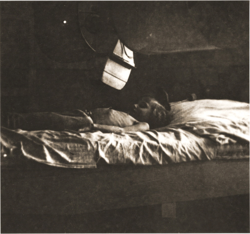 Ghetto Litzmannstadt: Emaciated child.